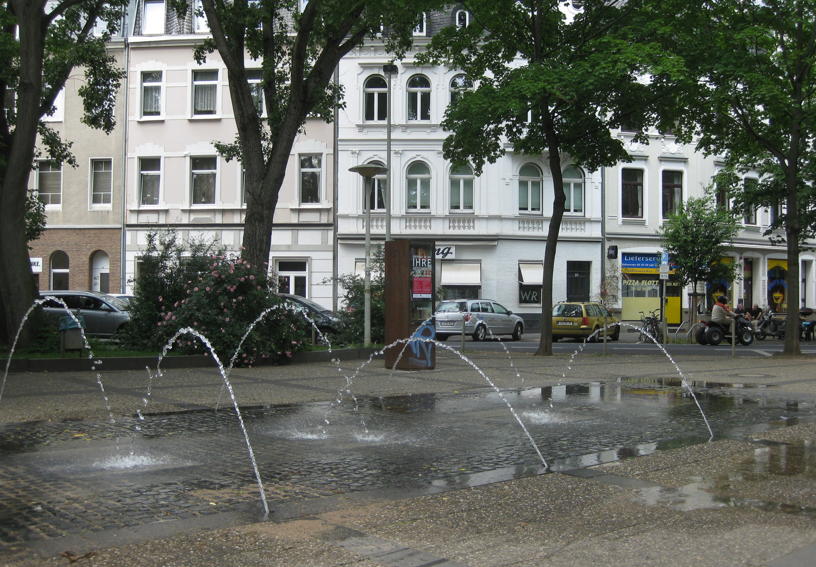 public bookcase in Bonn-Nordstadt/Germany, am Frankenbad